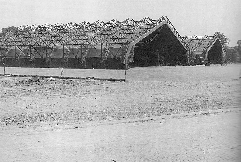 Temporary "Bulter" type hangars used at the A-9D Le Molay Air Depot by IX Air Service Command